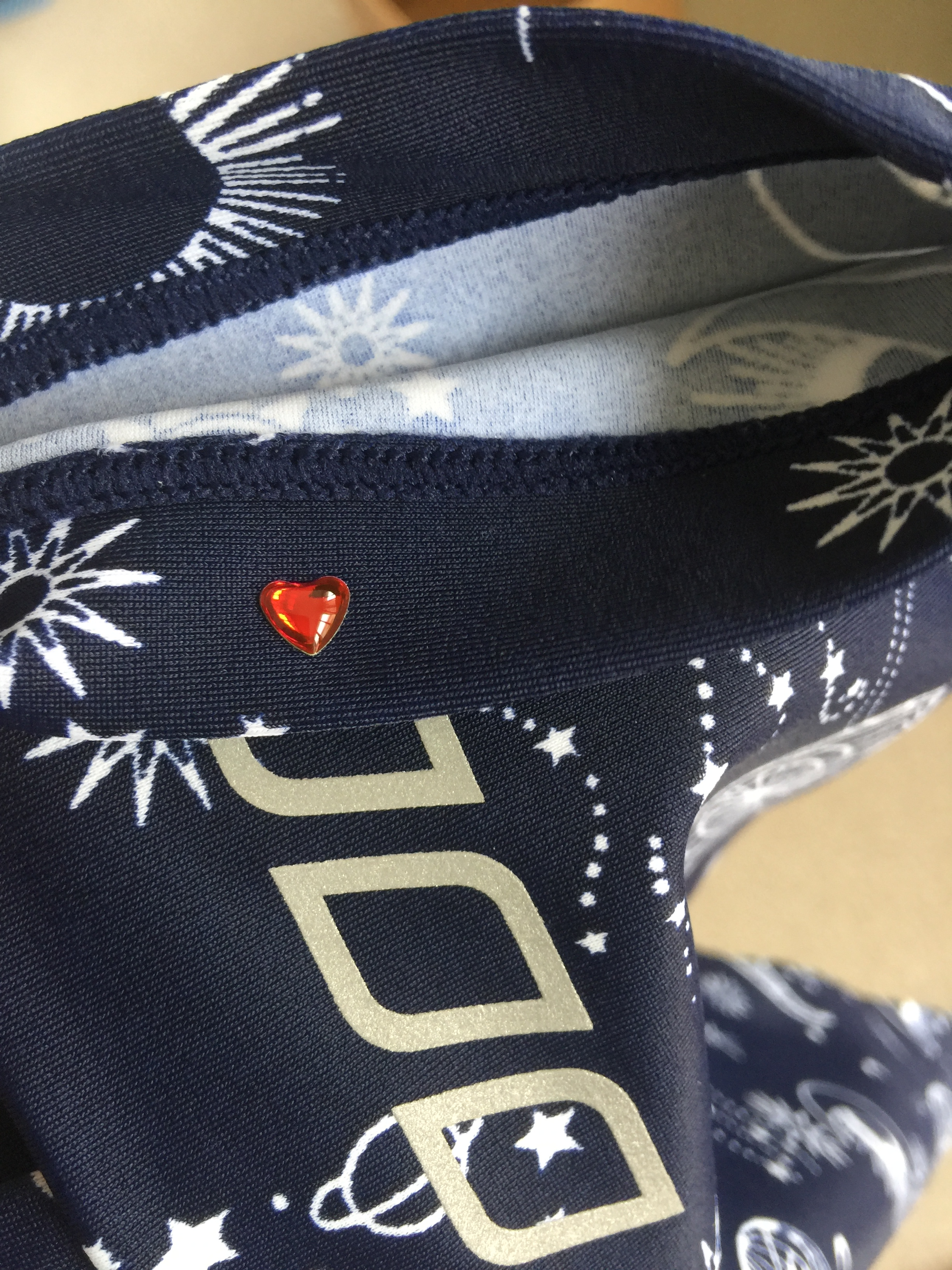 Every Lorna Jane garment includes a heart-shaped bead to signify that it was made "with love". This example is inside the ankle hem of a pair of tights